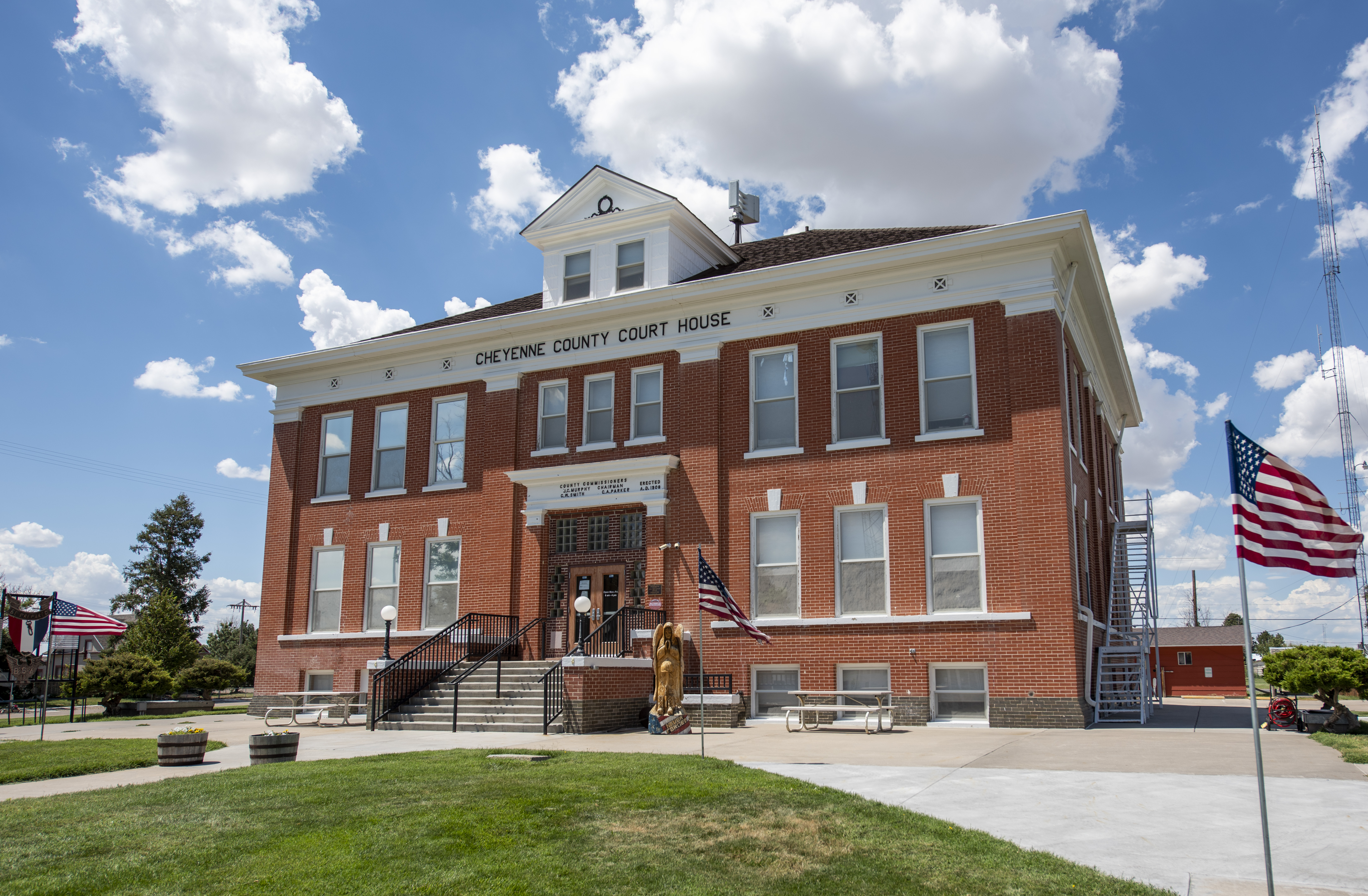 Photograph of the Cheyenne County Courthouse in Cheyenne Wells, Colorado. Image taken in July 2020.